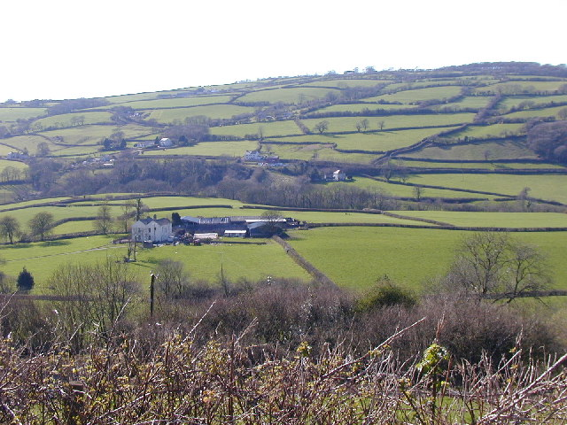 Gwendraeth Valley from Mynydd-y-Garreg. The farm in the foreground is Gwenllian Farm and in the distance you can see the old Corporation Arms and Bryn Gwendraeth house where I lived 40 years ago. The photograph was taken outside Horeb Chapel.